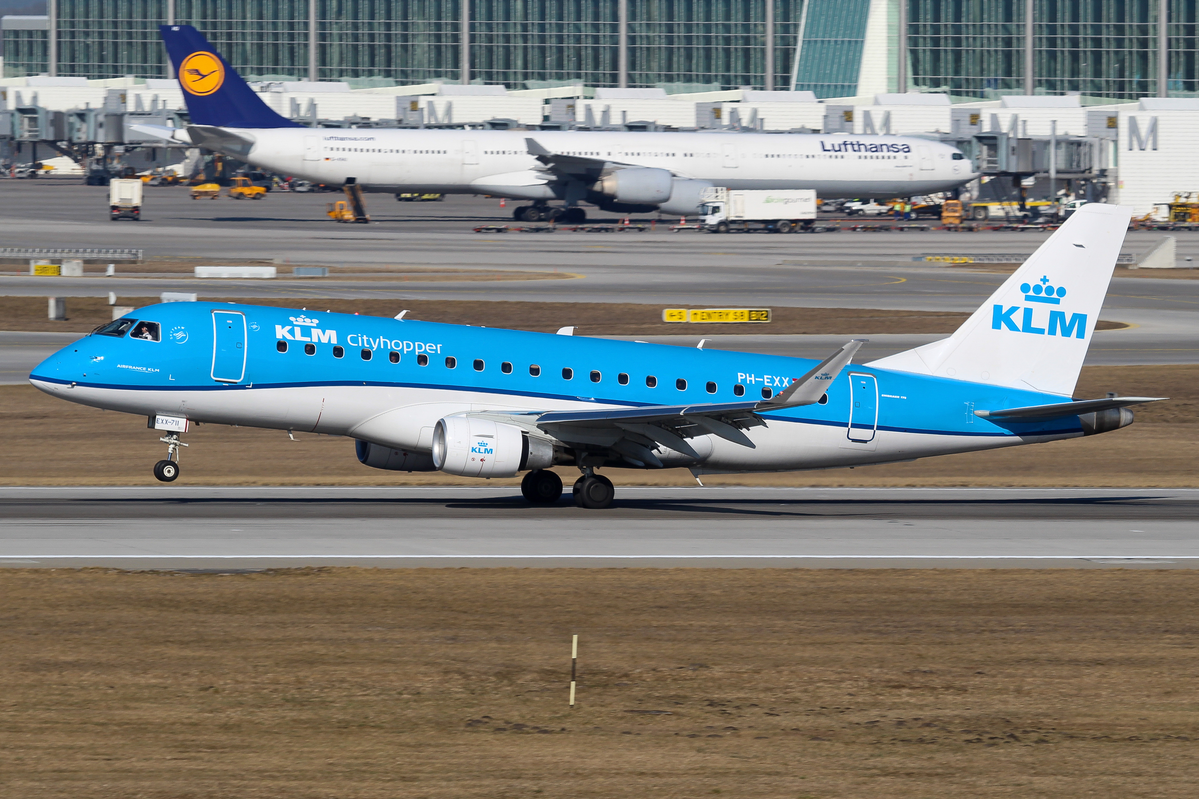 KLM Cityhopper Embraer 175 at Munich Airport.